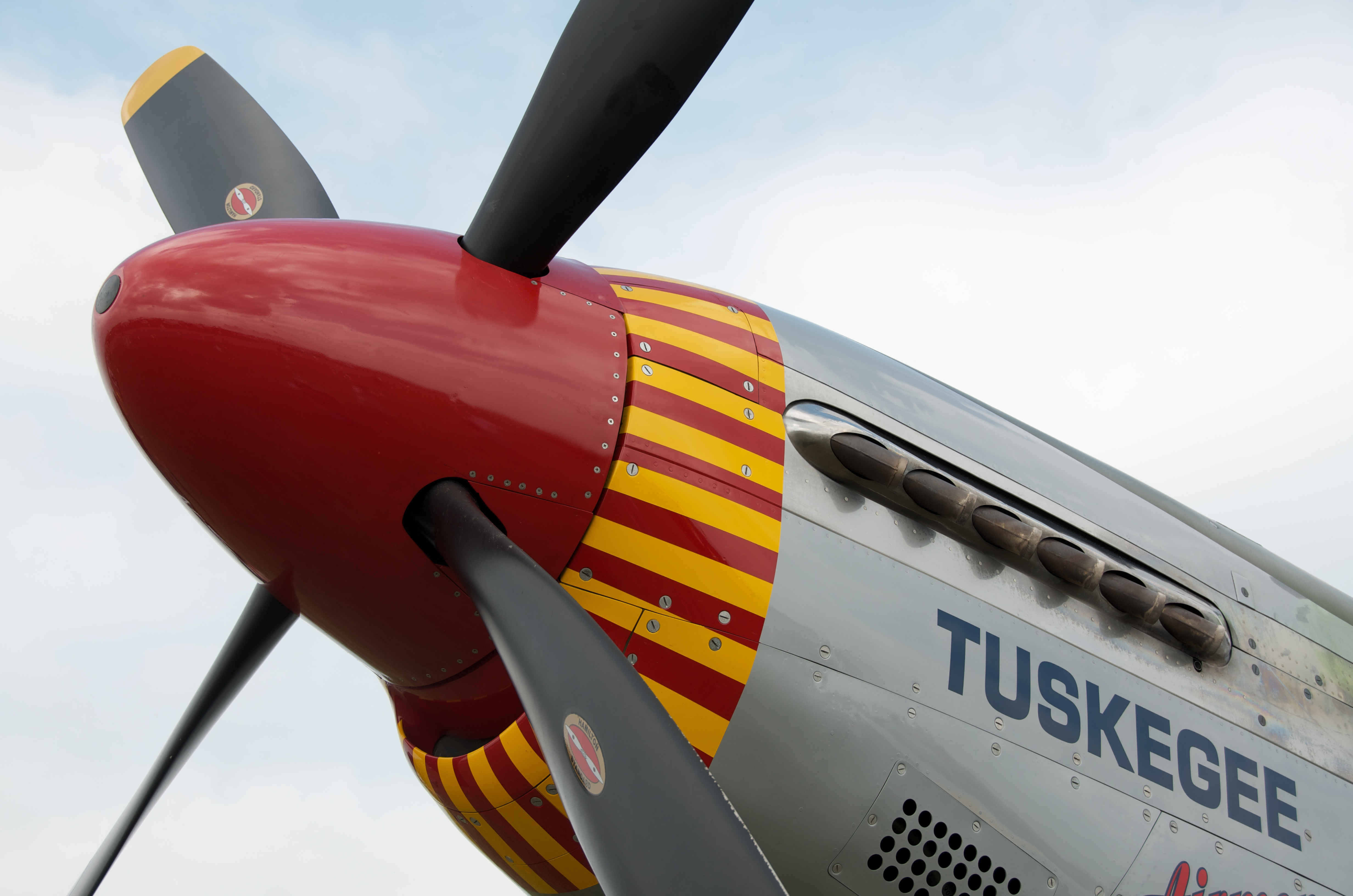 This rare P-51C Mustang is operated by the Minnesota Wing of the Commemorative Air Force. This airplane took to the air again last summer. The restoration is gorgeous. Nice work Redtail Team!